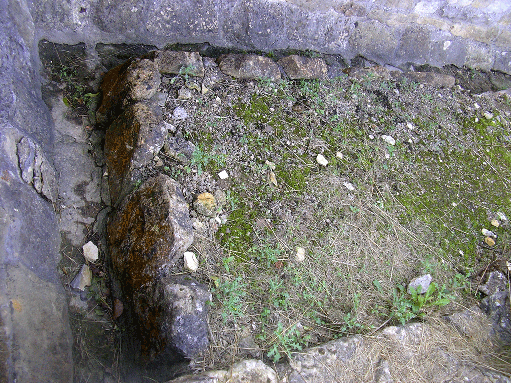 Detail of the latrine near the bath house at Great Witcombe Roman Villa.